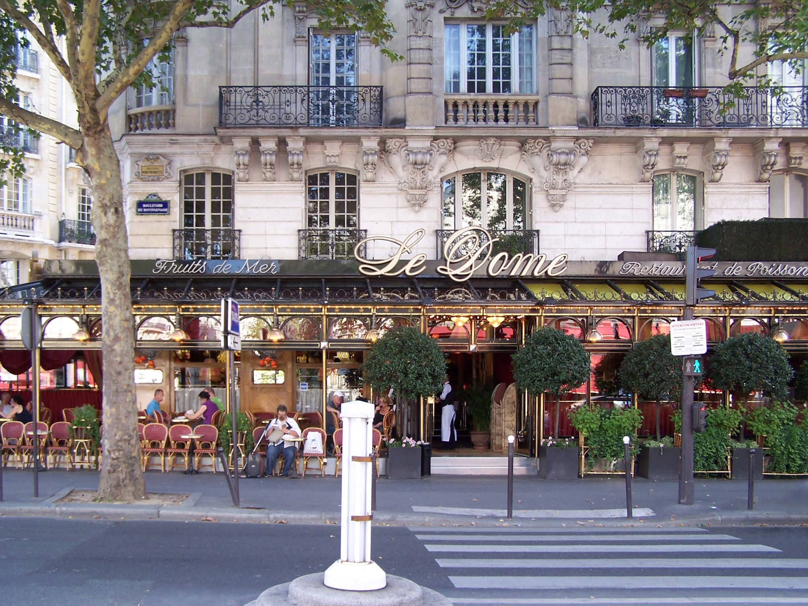 View of the brasserie/restaurant Le Dôme at boulevard du Montparnasse in Paris